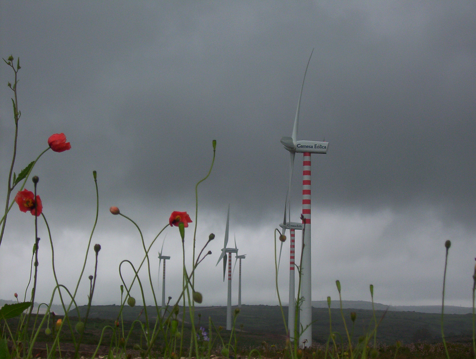 Foto del parco eolico di Florinas. Gamesa